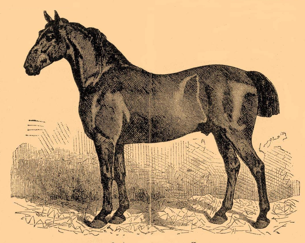 Anglo-Norman - Illustration from Brockhaus and Efron Encyclopedic Dictionary (1890—1907)